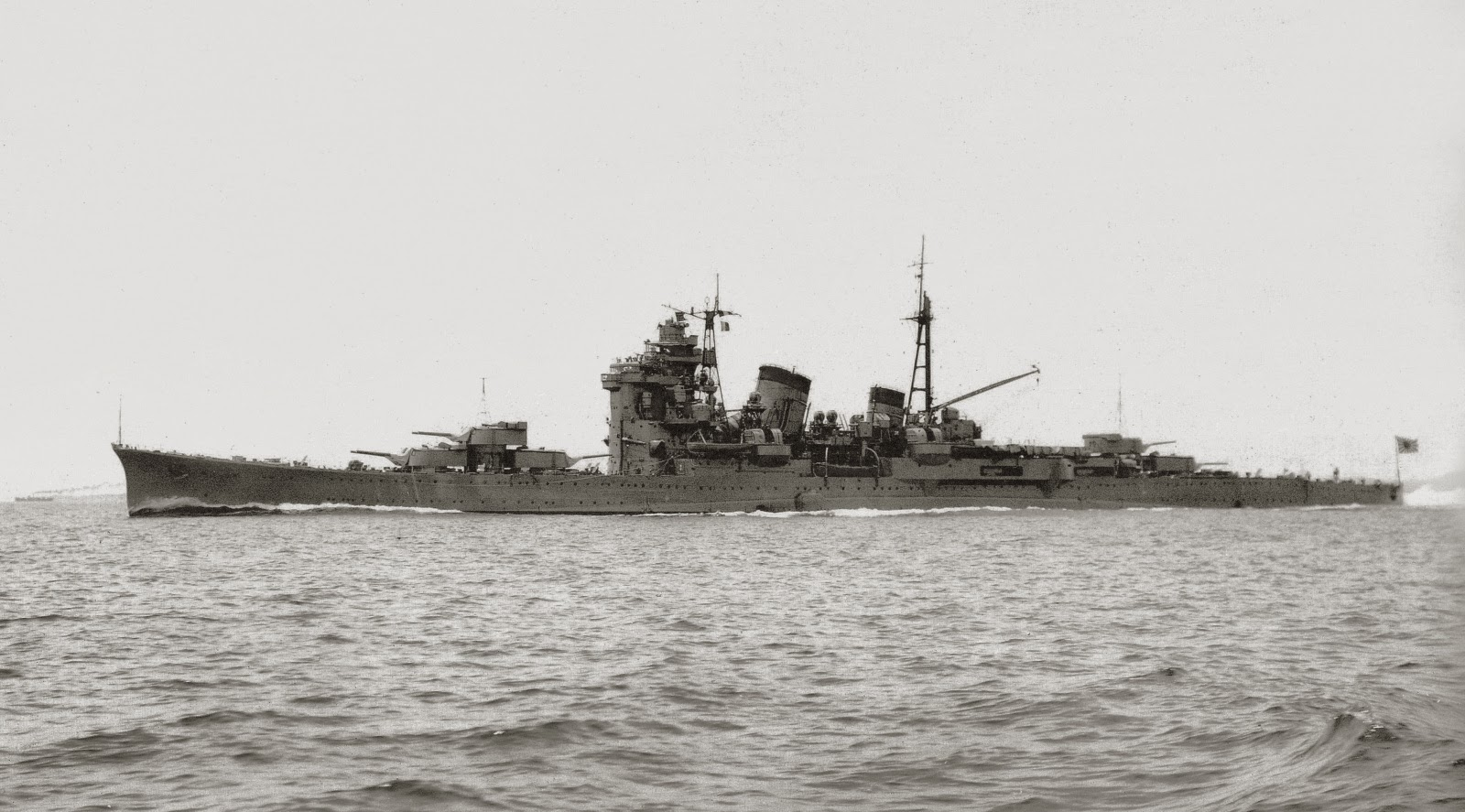 Ashigara, May 1937.